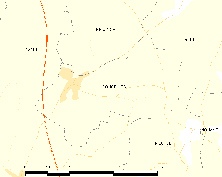 Map of French municipality